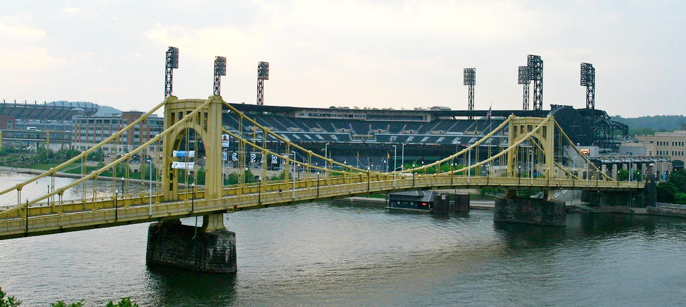 The Roberto Clemente Bridge in Pittsburgh, Pennsylvania, with PNC Park in the background.40°26′43.9″N 80°0′11.8″W / 40.445528°N 80.003278°W